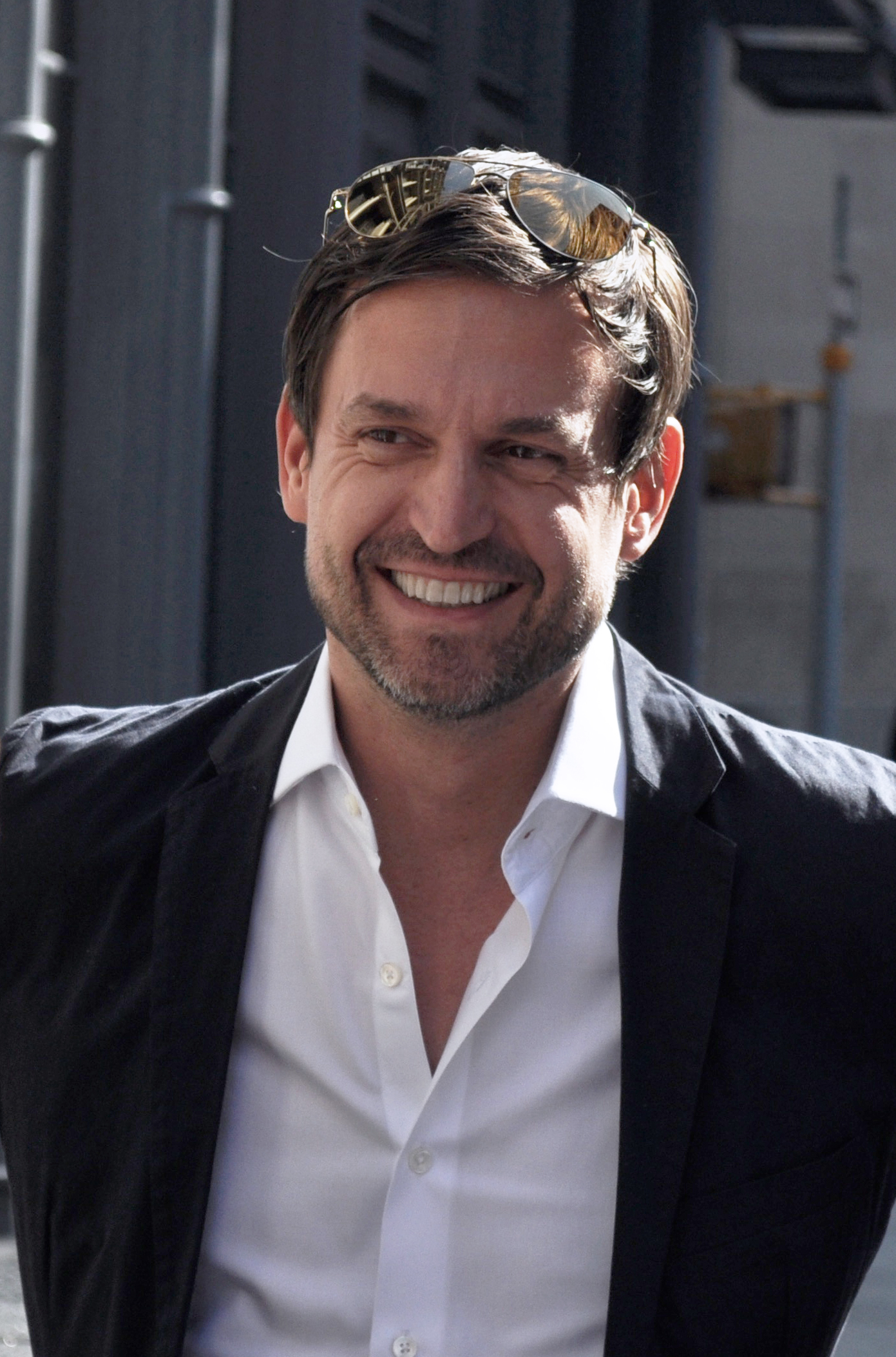 German architect Ole Scheeren on the streets of New York (September 2016)